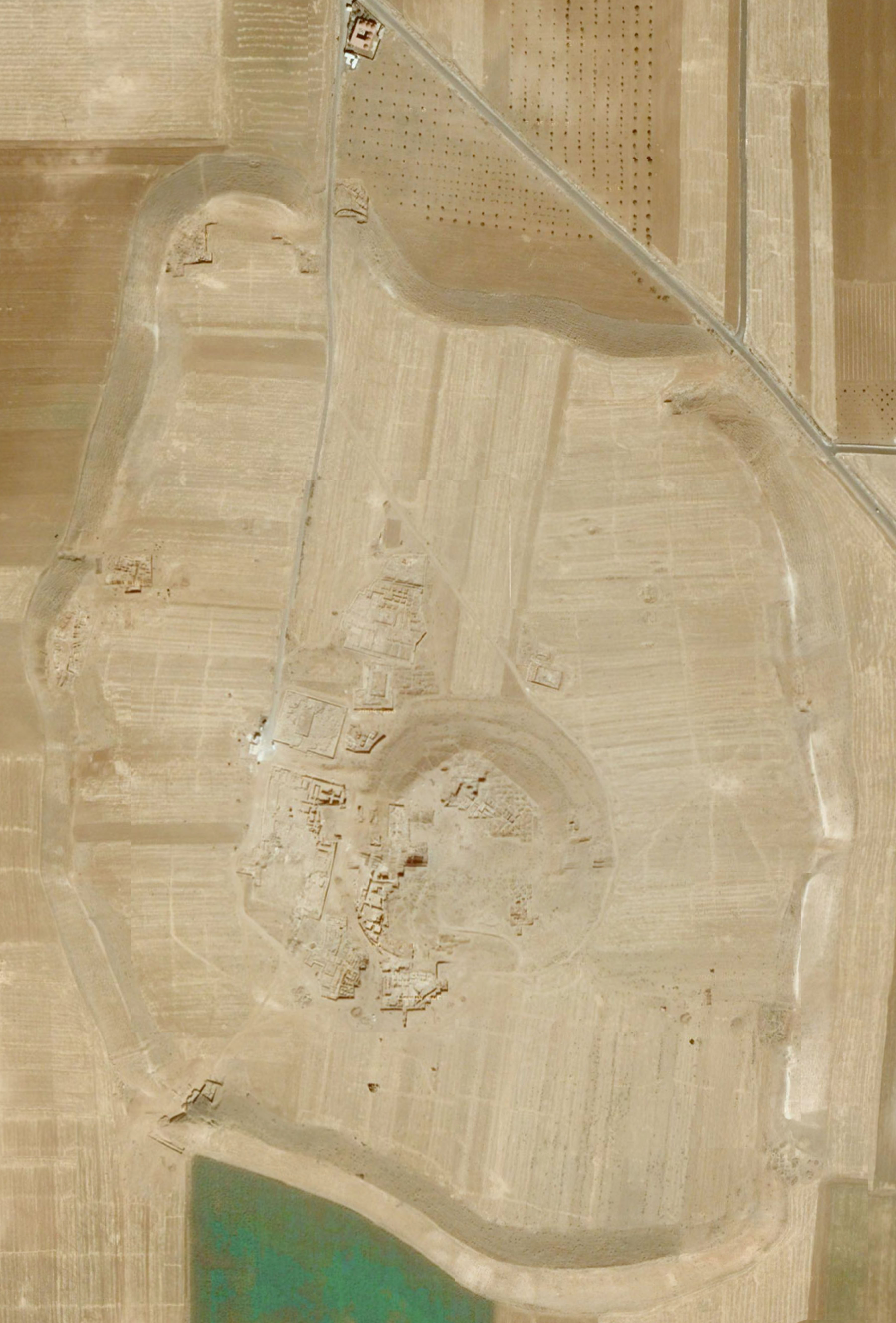 Archaeological Area of Ebla in 2005